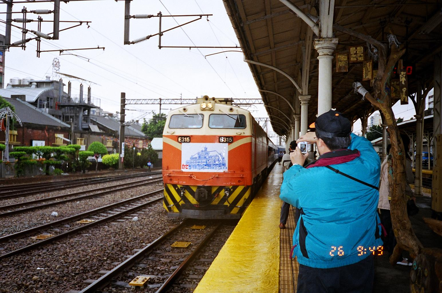 Taiwan Railway Club's train arrived TRA Taichung Station.